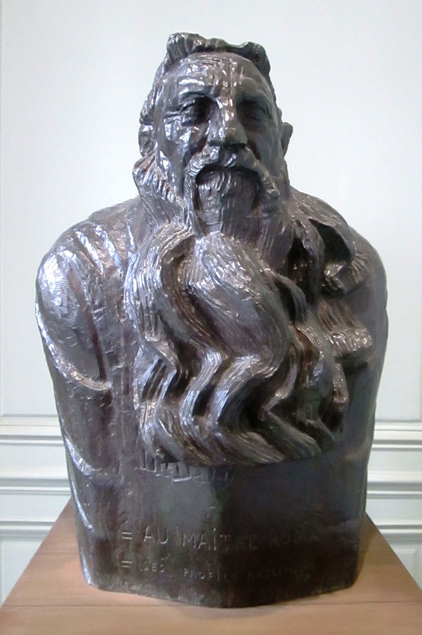 A bronze bust of Auguste Rodin made in 1910 by Antoine Bourdelle. (Source: Musée Rodin)